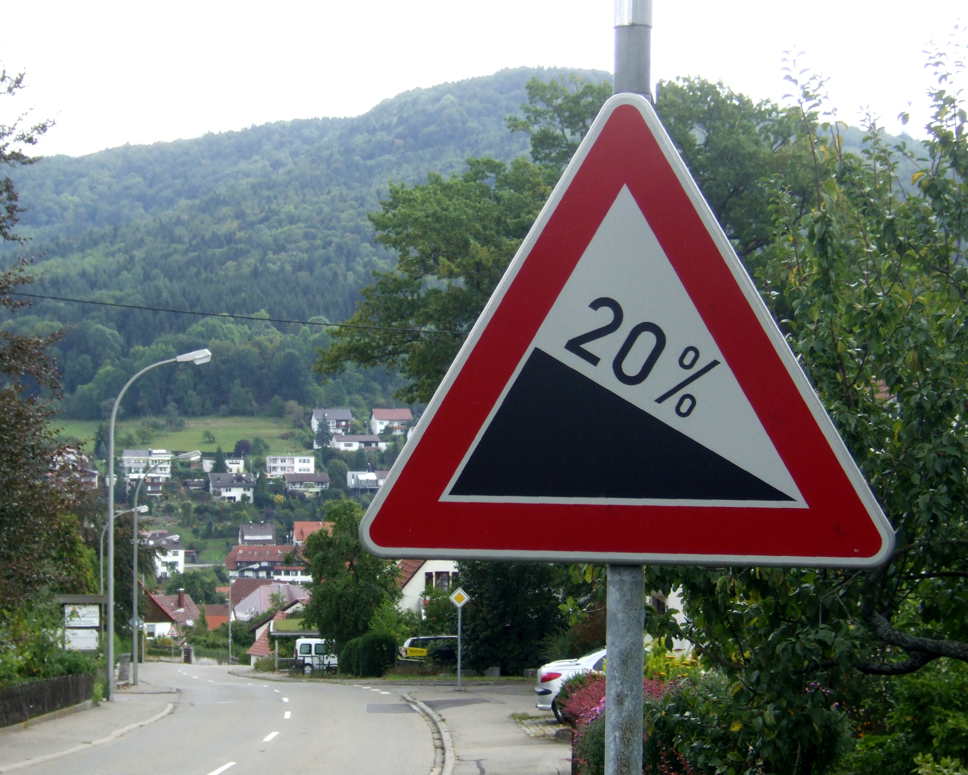 Traffic sign "Slope 20 percent" (Albstadt-Laufen, Germany)